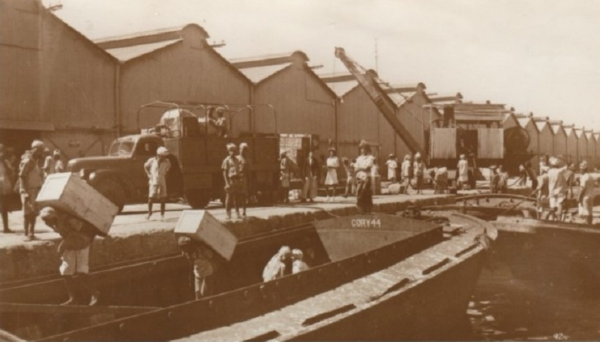 Photograph showing workers unloading cargo in Maala, Aden, c. 1935-1940. Cropped from a contemporary postcard.